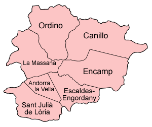 Map of the parishes of Andorra, named in Catalan (local language), compatible with English. The border betwee Canillo and Encamp is vague, this map does its best. Also the borders of Andorra la Vella are somewhat vague. The individual maps are: Andorra la Vella Canillo Encamp Escaldes-Engordany La Massana Ordino Sant Julià de Lòria